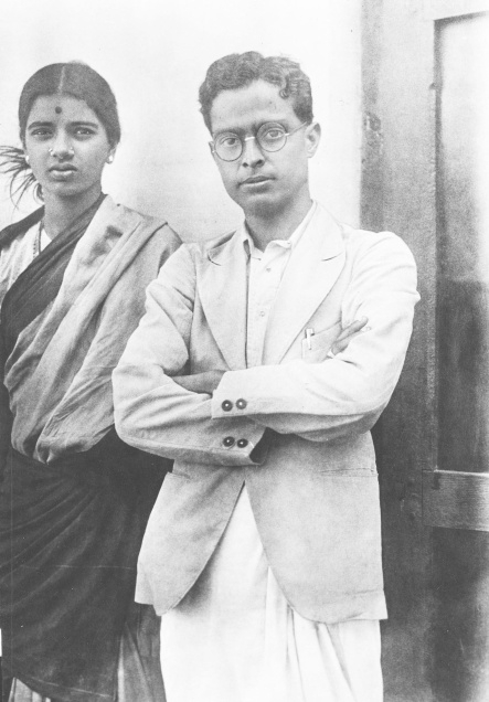 Writer R. K. Narayan with his wife Rajam in Mysore